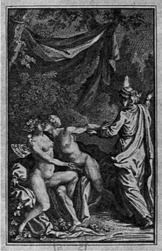 Engraving for Thérèse philosophe (libertine novel, 18th c.)